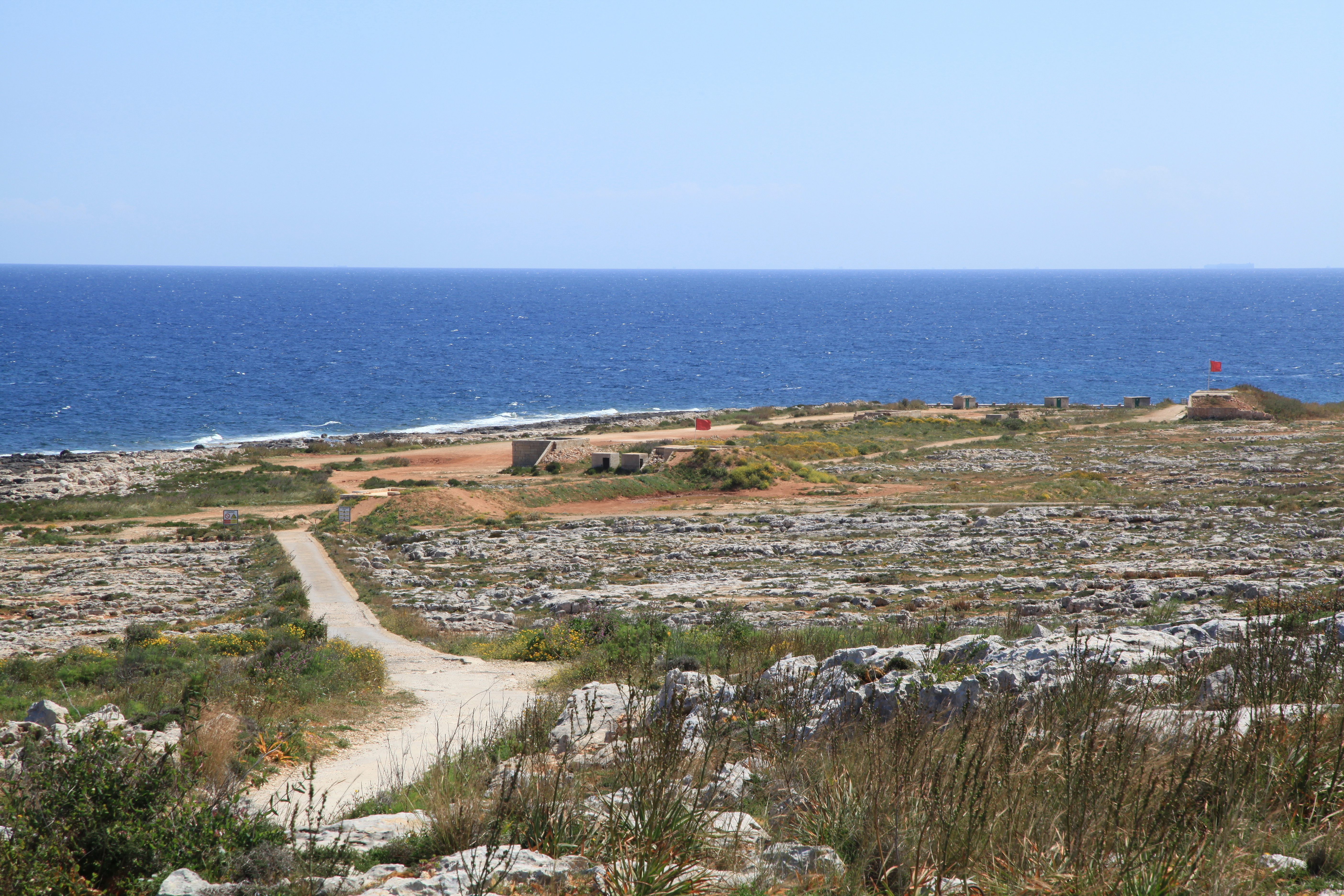 Pembroke Rifle Ranges at Triq Martin Luther King in Pembroke, Malta